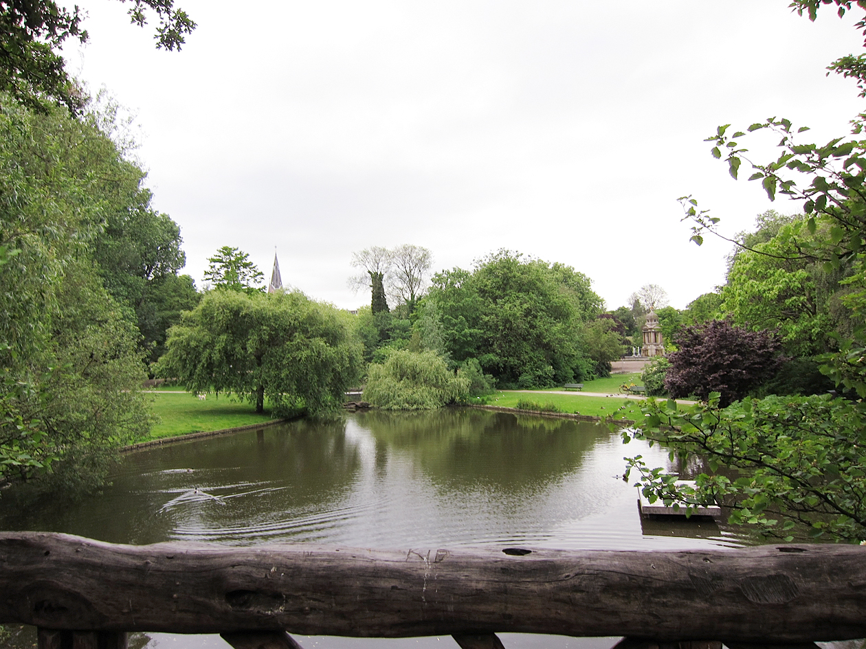 Sarphatipark in Amsterdam. View from east end of the large pond.